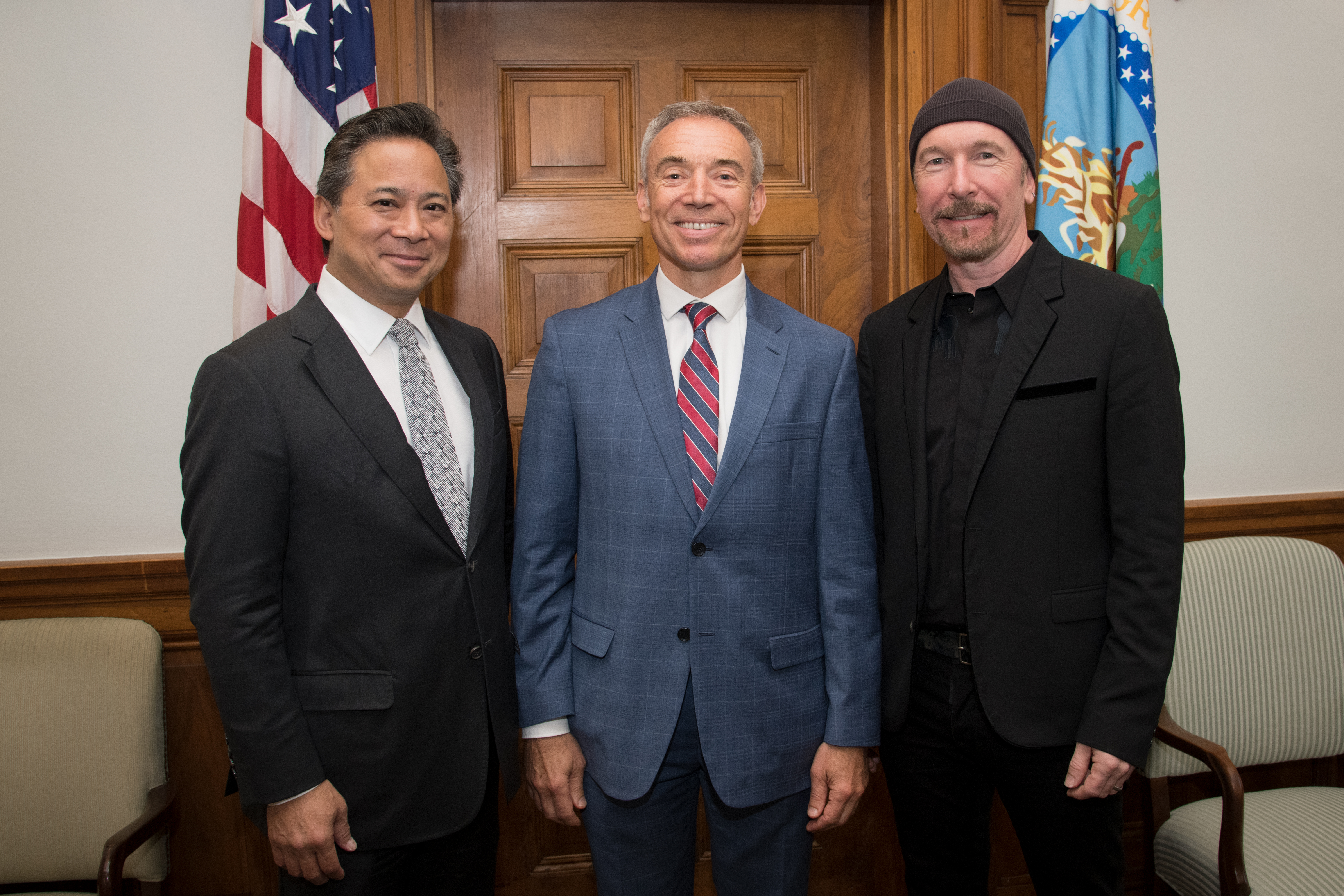 U.S. Department of Agriculture Deputy Secretary Steve Censky, blue coat, welcomes U2 guitarist and Angiogenesis Foundation board member The Edge, black cap, and Angiogenesis Foundation Co-founder President and CEO Dr. William W. Li, grey tie, to the USDA headquarters in Washington, DC, on June 19, 2018. Also present are Acting USDA Chief Scientist, Acting Deputy Under Secretary for Research, Education, and Economics (REE) and current Agricultural Research Service (ARS) Administrator Chavonda Jacobs-Young; The Glover Park Group’s (GPG) Government Affairs Division Managing DirectorJoel Leftwich, GPG Co-Founder Michael Feldman; and GPG Food Managing Director Grant Leslie. USDA The Foundation has developed a social enterprise model based on value creating collaborations with leading medical academic centers, biopharmaceutical and medical device companies, and government agencies. Photo by Lance Cheung.